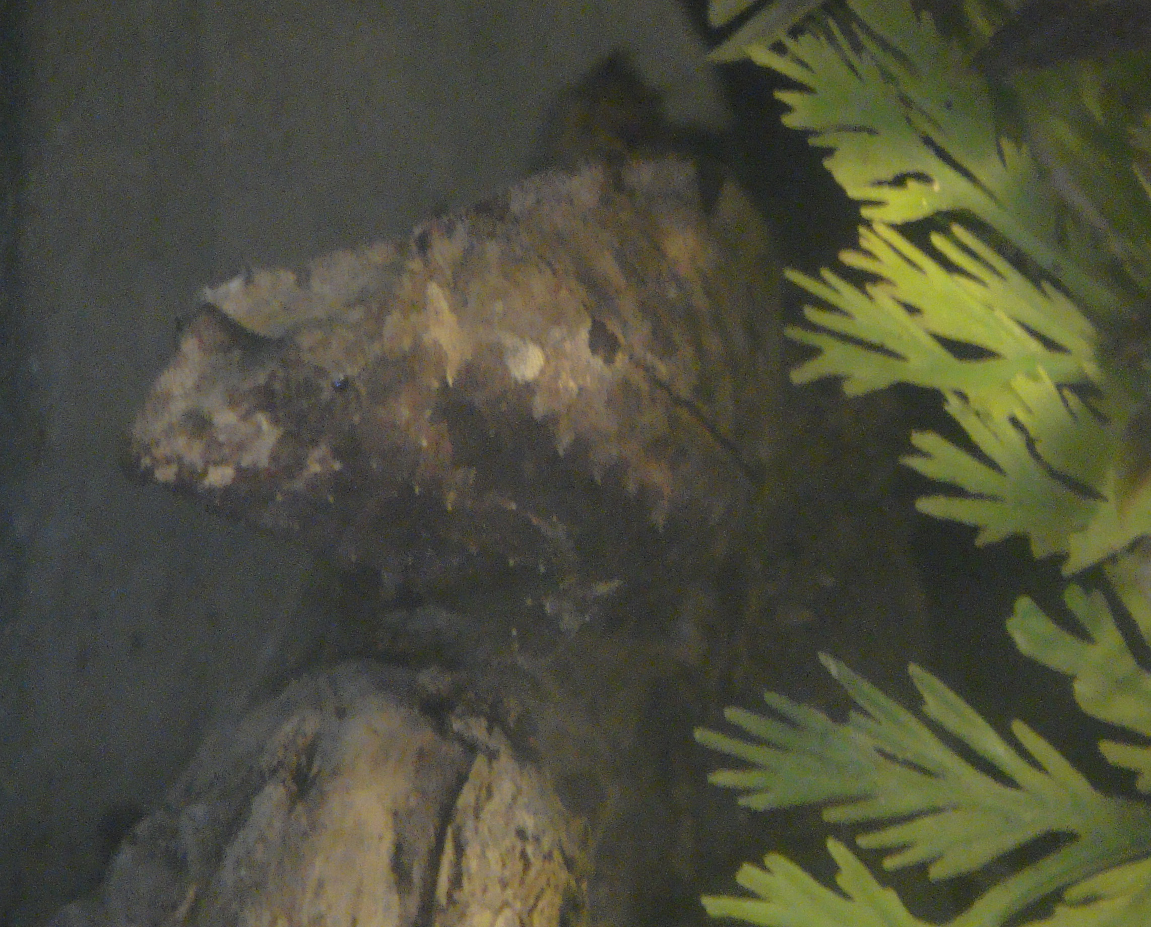 A Rhampholeon temporalis, female, a chameleon. Example of coloration.